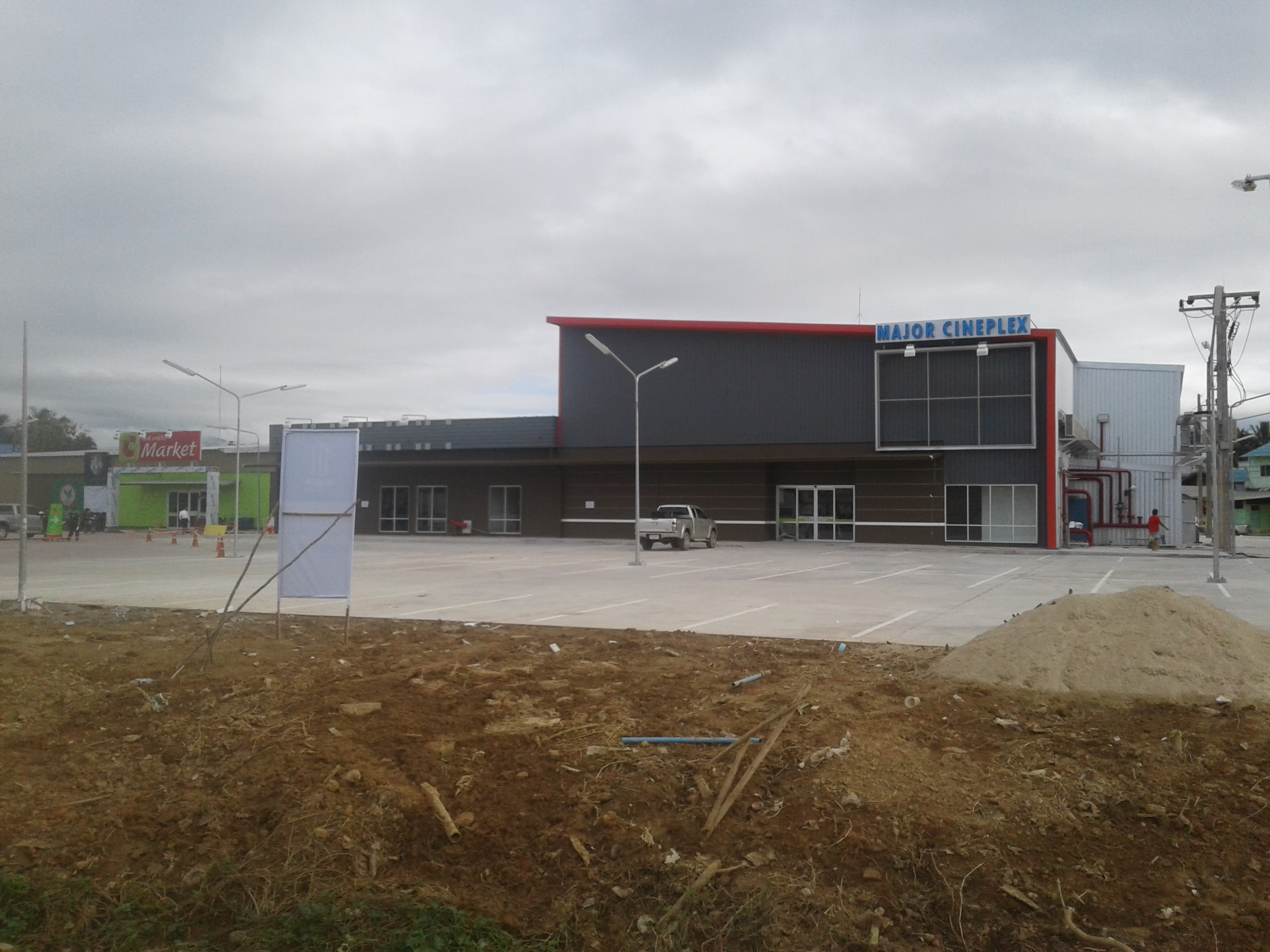 Major Cineplex Big C Sichon